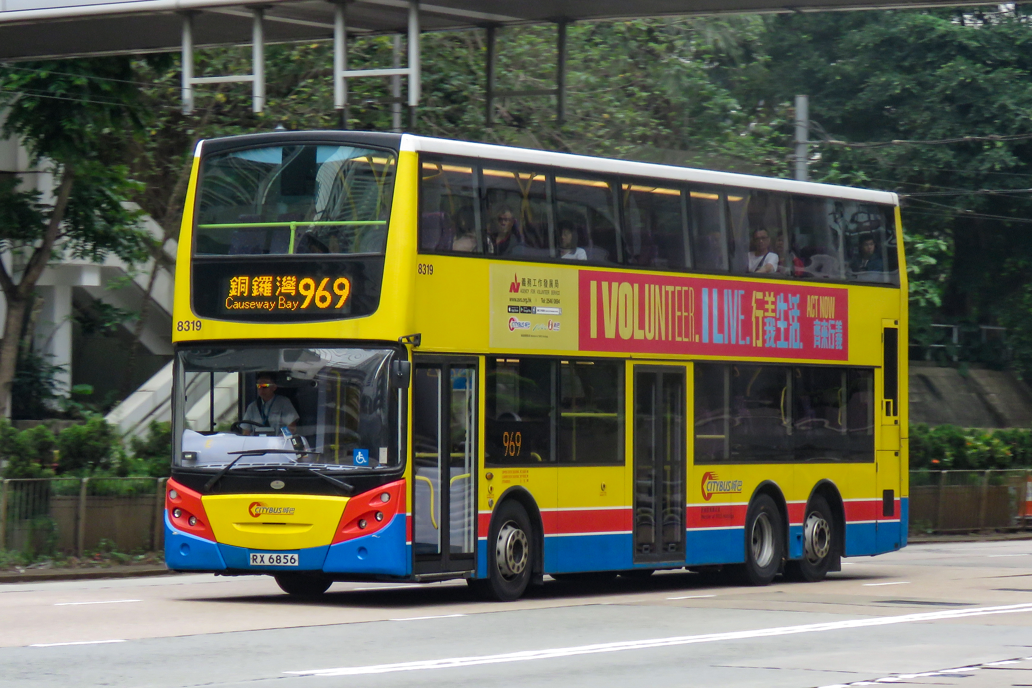 8320 is another thing...